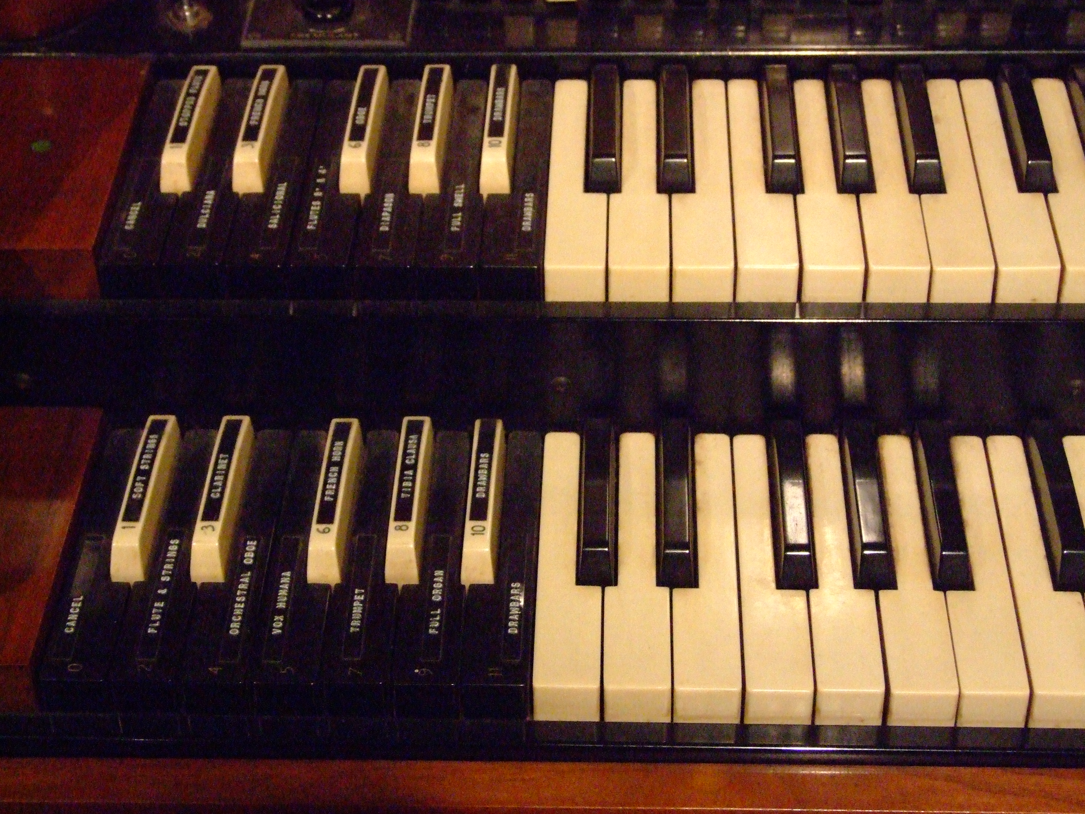 Of a fine old Hammond self playing organ